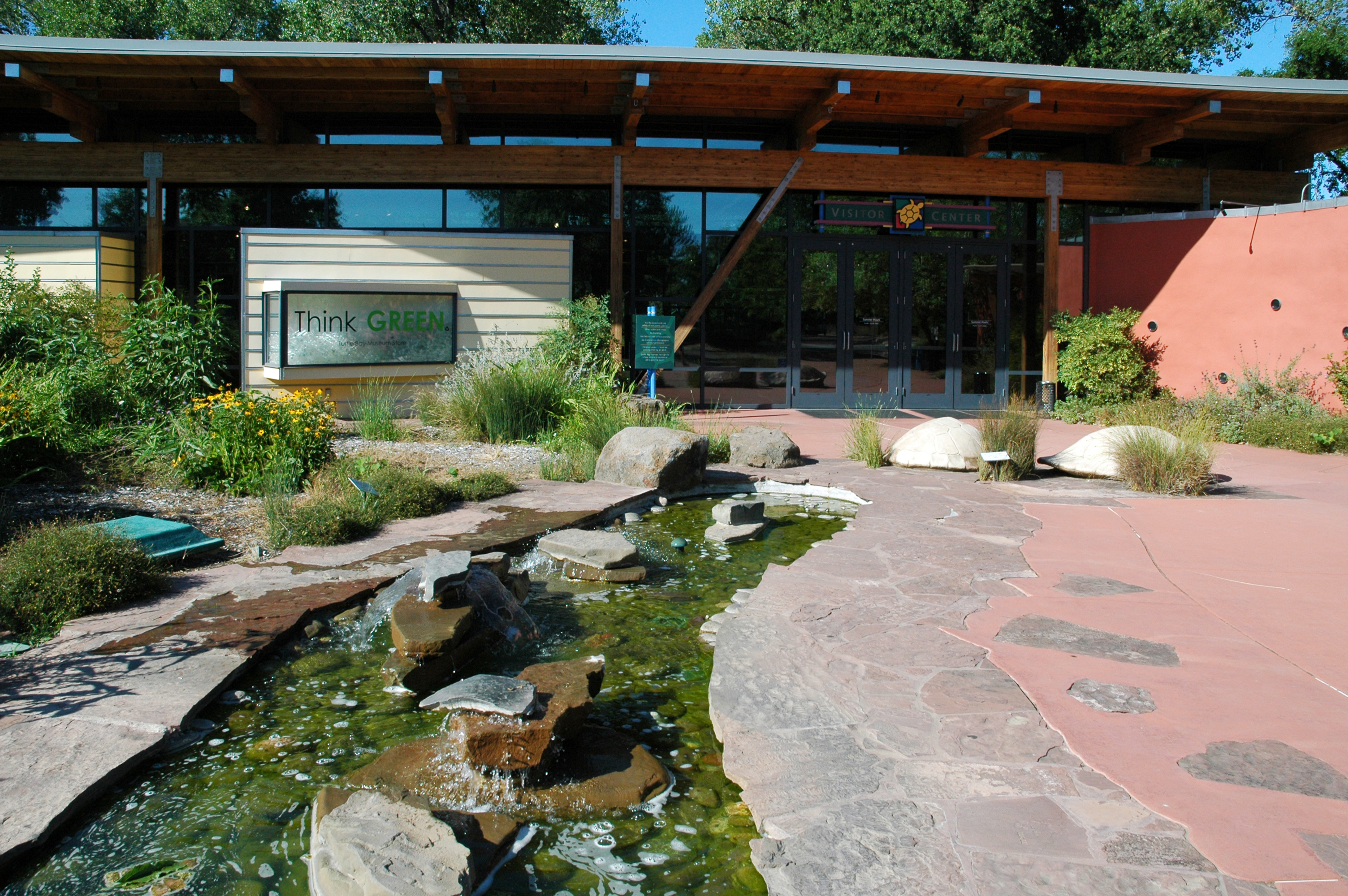 Turtle Bay Exploration Park visitor center, Redding, California.